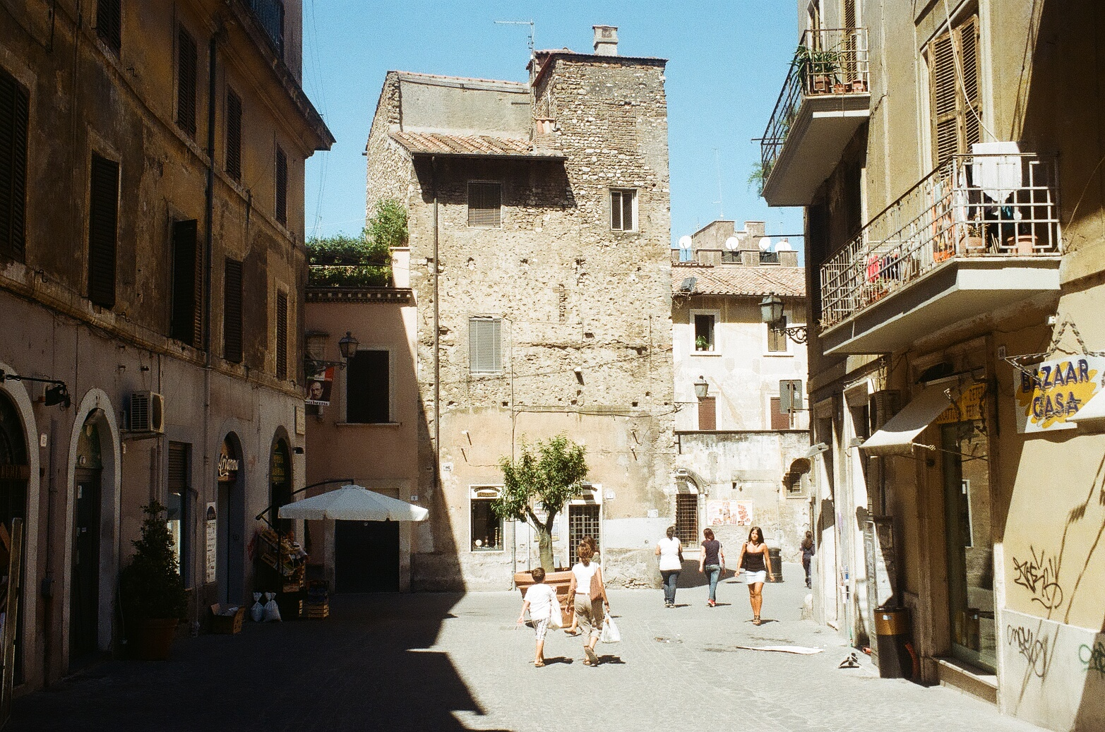 Street in Tivoli, September 2011Latina: Platea in Tiburi in mense Septembri anni 2011